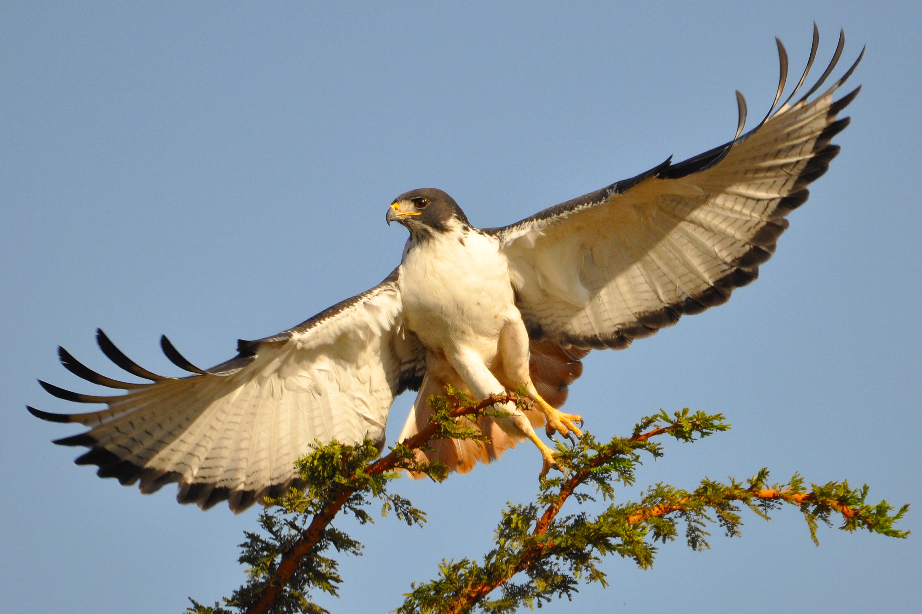 Augur buzzard (Buteo augur) starting to fly, Serengeti National Park, Tanzania